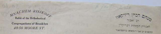 Image of heading from stationery of Rabbi Mnachem Risikoff, to show the spelling of his own name that he himself used.